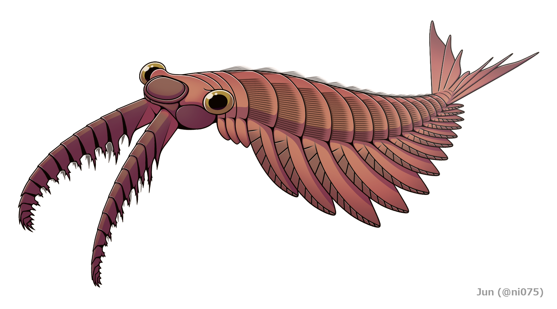 Reconstruction of Anomalocaris canadensis, a cambrian radiodont (dinocaridid、stem-group arthropod).